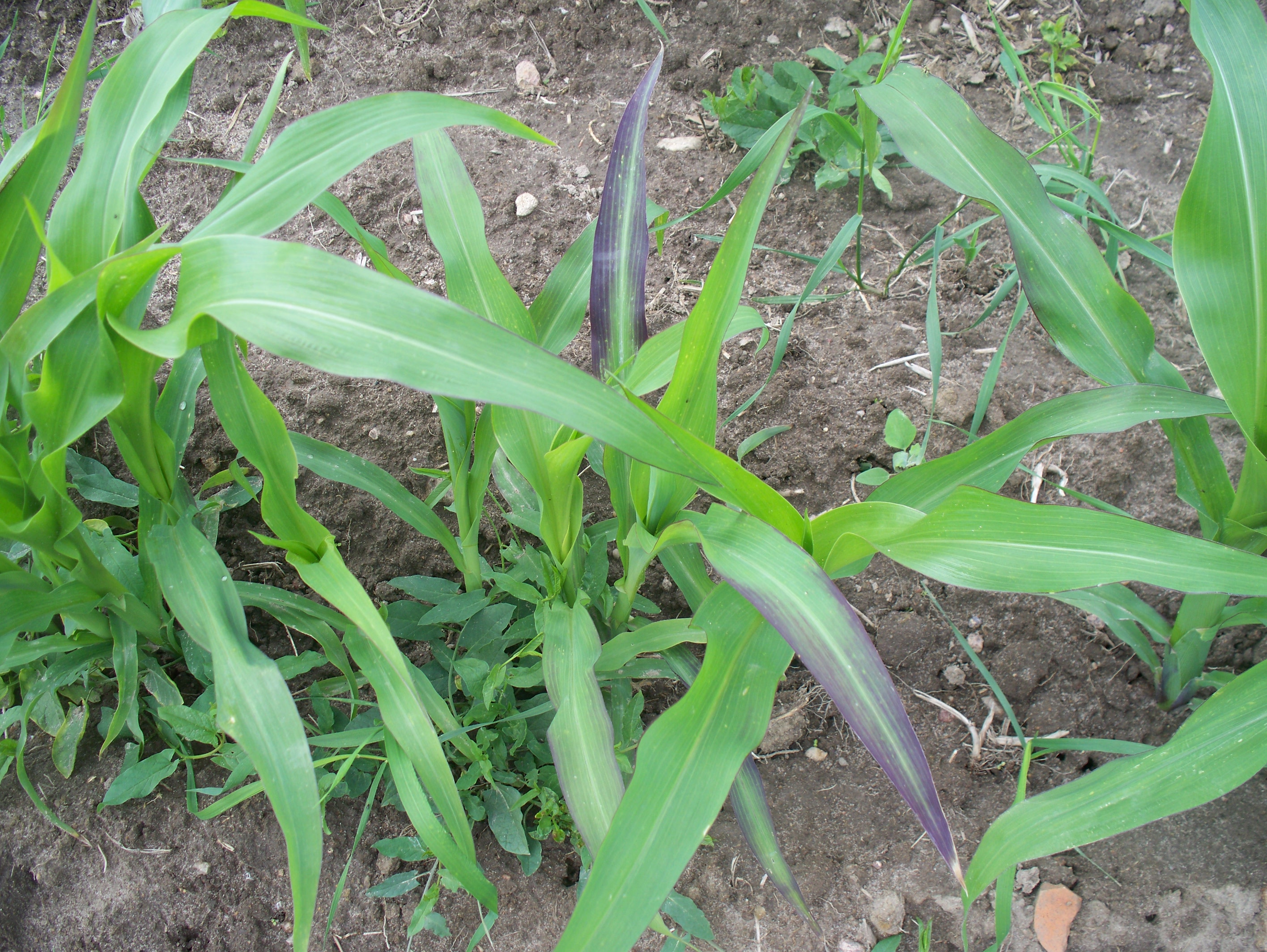 symptoms of phosphorus deficiency, on maize leaves